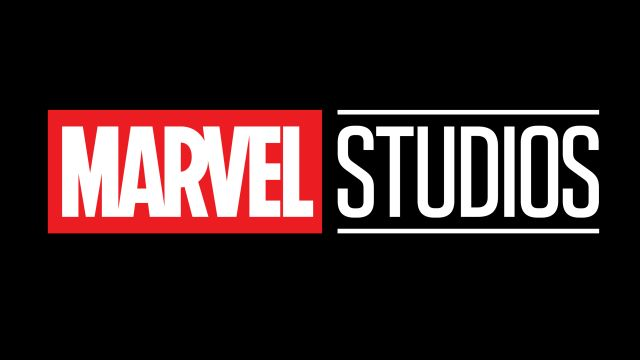 Logo of Marvel Studios.